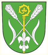 Coat of arms of Kobeřice. Česky: Znak obce Kobeřice.